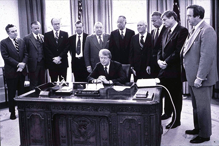 President Jimmy Carter signing the Rural Health Clinic Services Act in the Oval Office, Washington, DC, December 13, 1977.